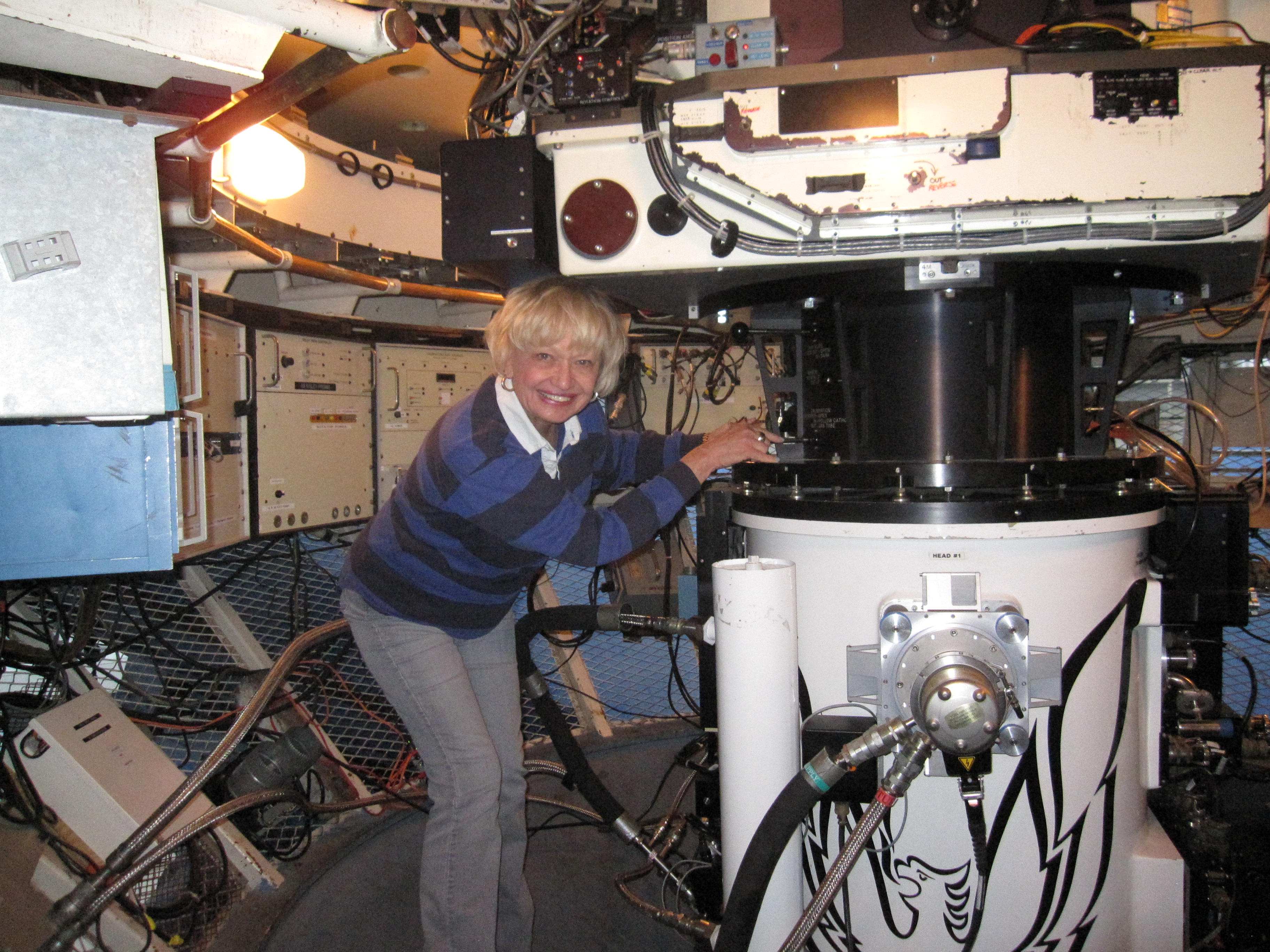 Dupree is adjusting the PHOENIX near-infrared spectrograph to obtain her observations. She is changing the settings on a near-infrared spectrograph, PHOENIX, she is using to observe stars like our Sun that may be harboring planets.